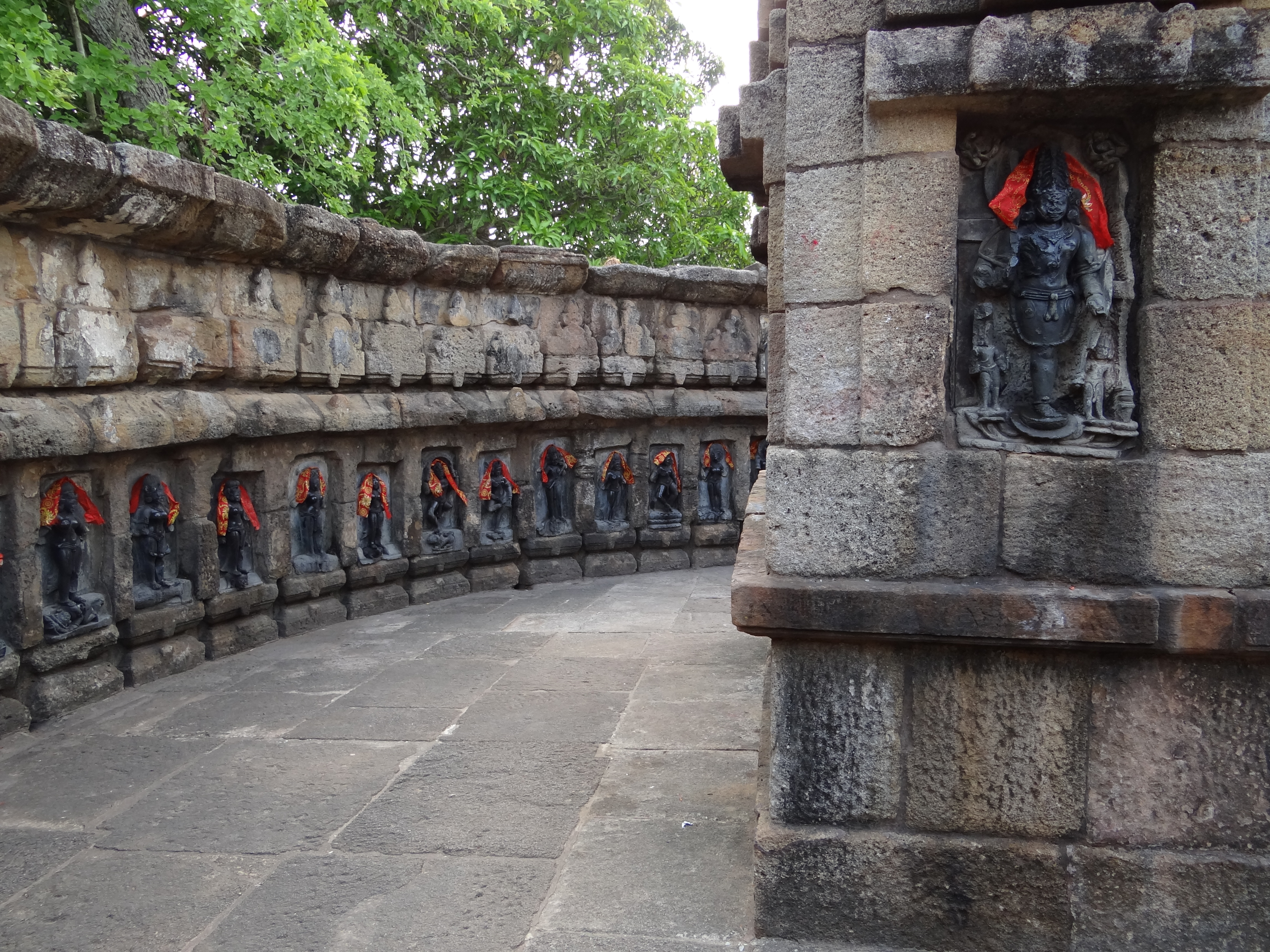 Chausath Yogini temple known as Mahamaya temple